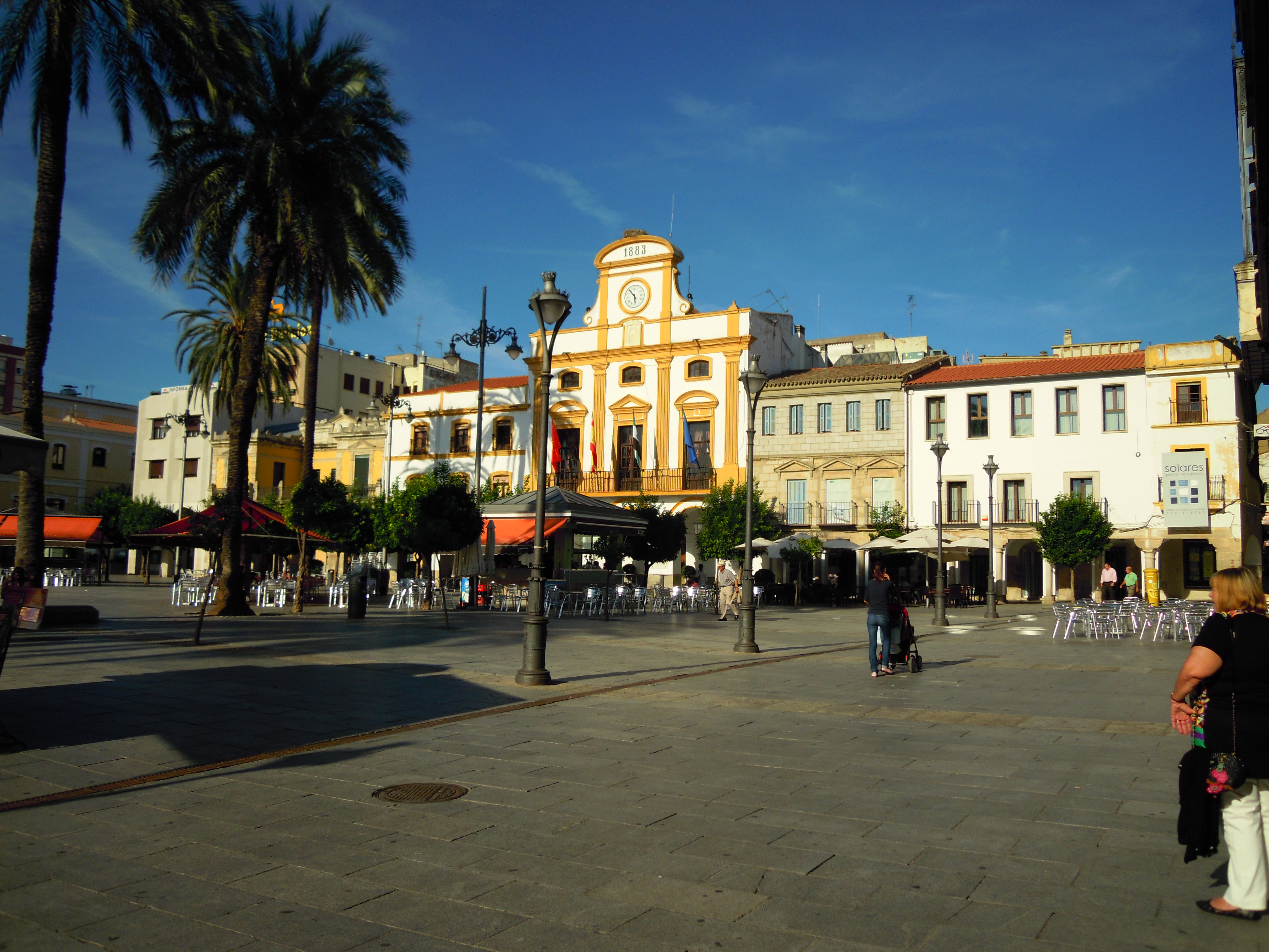 North elevation of the Main square (Plaza de Espana), Mérida, Extremadura, Spain